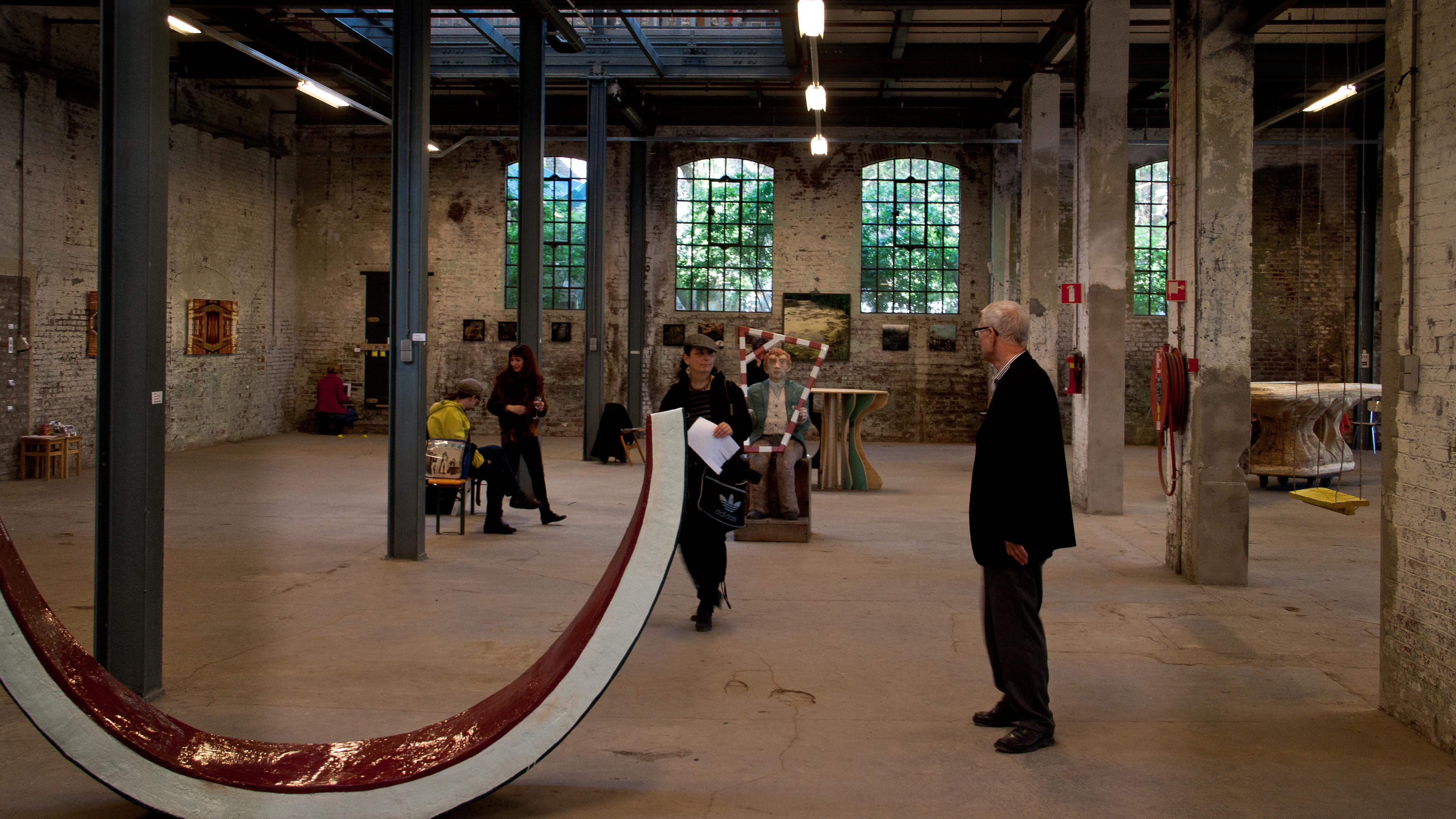 Exhibition in Timmerfabriek during Kunsttour 2013 in Maastricht, Netherlands.